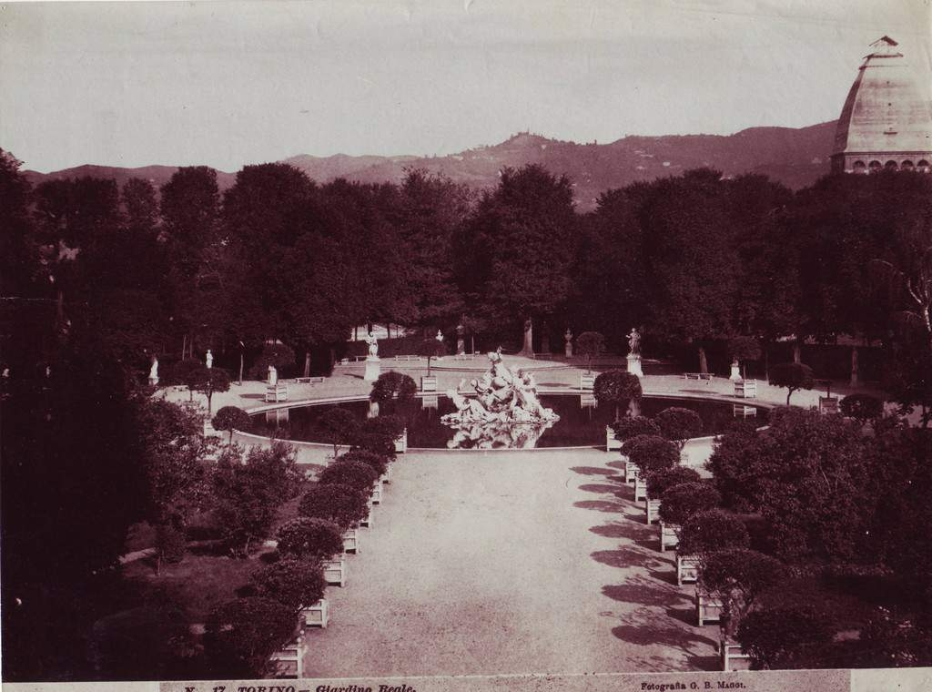 Giovanni Battista Maggi (183..-18..), "Turin - The Royal Garden" (Italy). - Catalogue # 17.